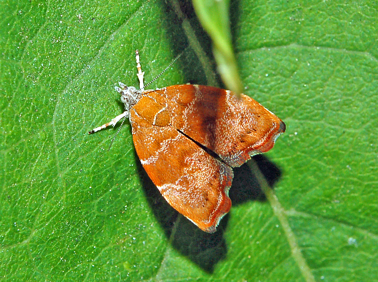 "Choreutis nemorana". Genova. Italy